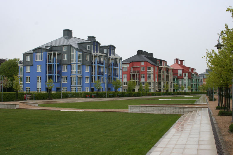 Housing area "Potatisåkern" Malmö arch Charles Moore